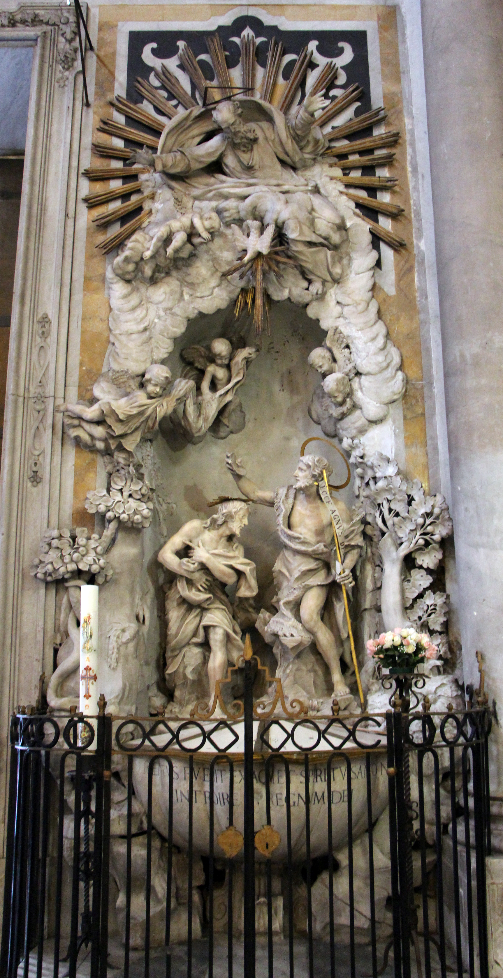 Baptism of Christ by Anton Domenico Parodi - Santa Maria delle Vigne (Genoa, Italy). The making of this document was supported by Wikimedia CH. (Submit your project!) For all the files concerned, please see the category Supported by Wikimedia CH.